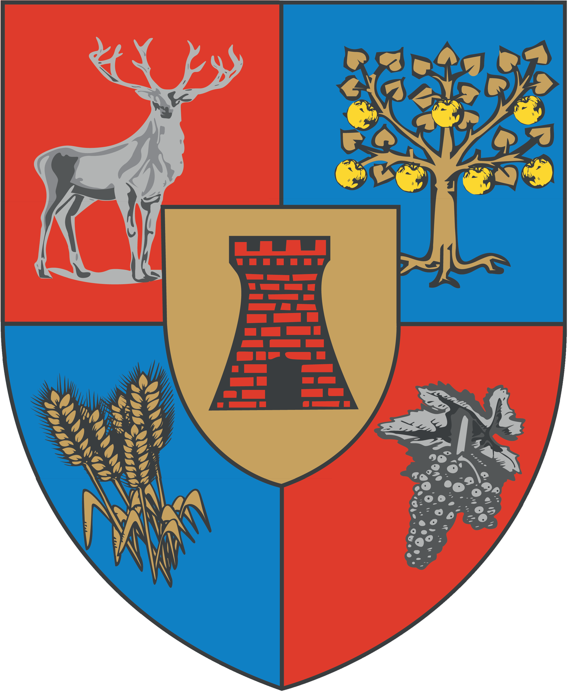 Coat of arms of Satu Mare County, Romania.